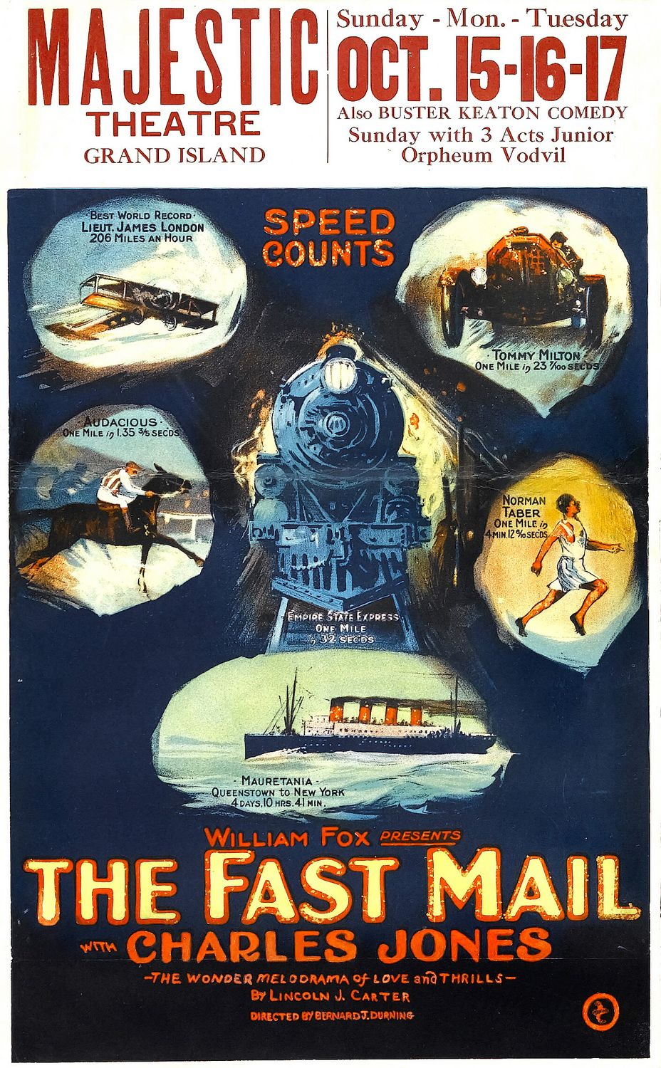 Poster for the 1922 film The Fast Mail; the film is considered to be lost.